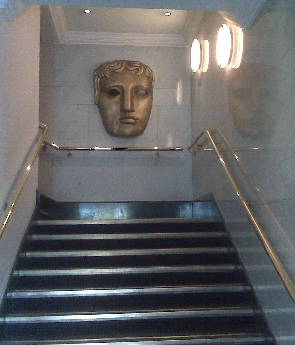 The stairs at Bafta HQ Piccadilly, London